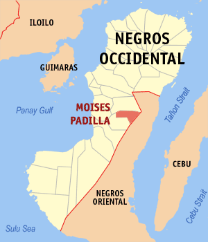 Map of Negros Occidental showing the location of Moises Padilla